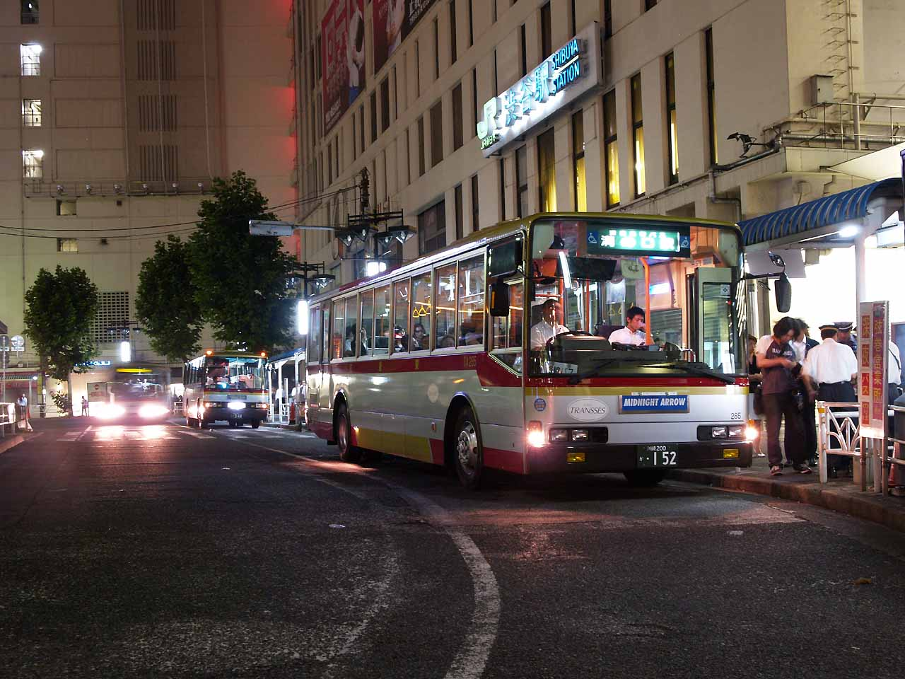 Tokyu Bus midnight express bus service "Midnight Arrow" Futako-Tamagawa line, bound for Mizonokuchi. Model: Mitsubishi Fuso Aero Star KL-MP35JM kai (one-step low-floor: stretched) License plate: KNK200 KA-152（川崎200か・152） Place: Futako-tamagawa station: Setagaya ward, Tokyo Japan